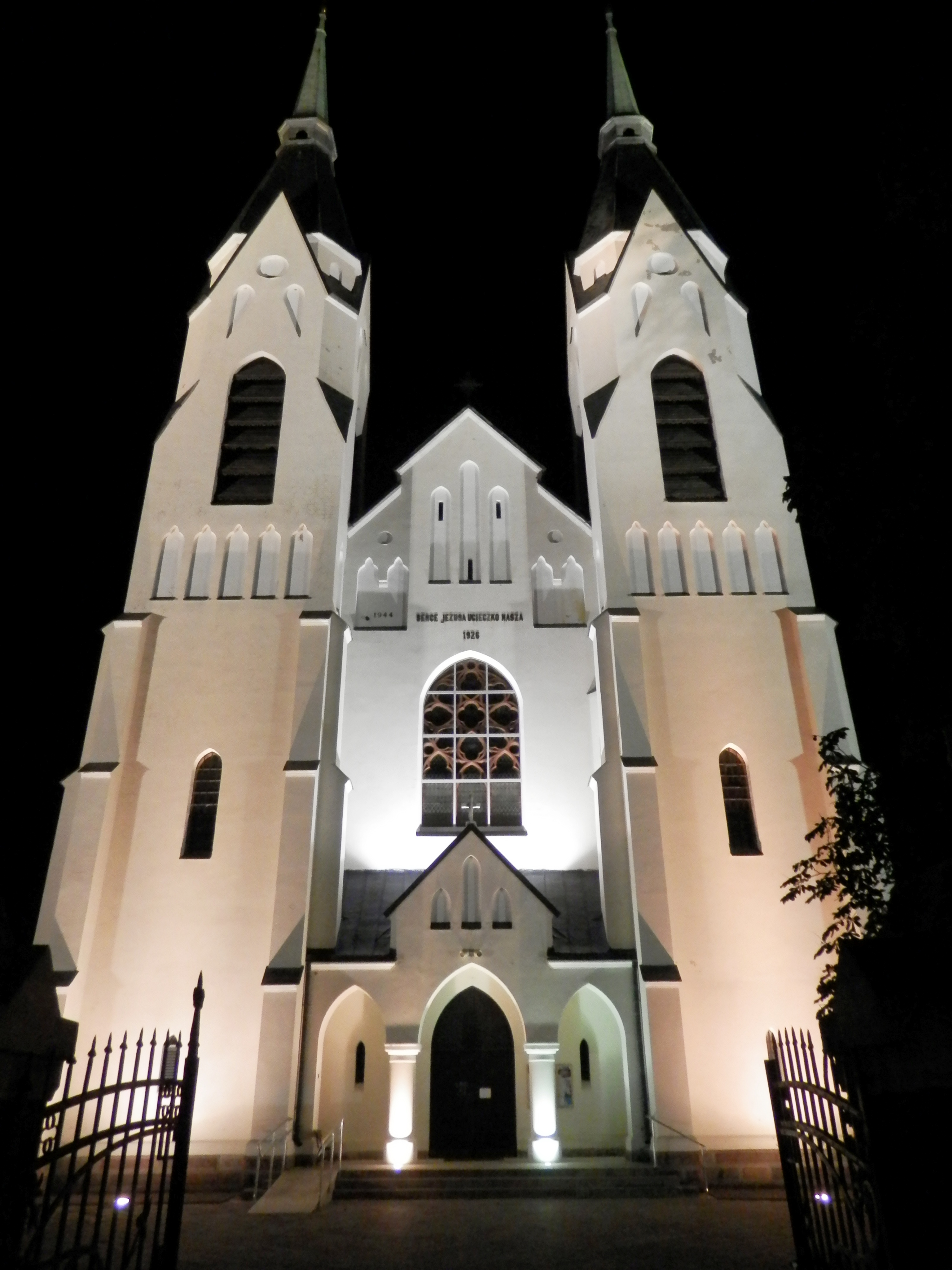 Parish church of St. Bartholomew in Kulesze Kościelne, Poland - night view